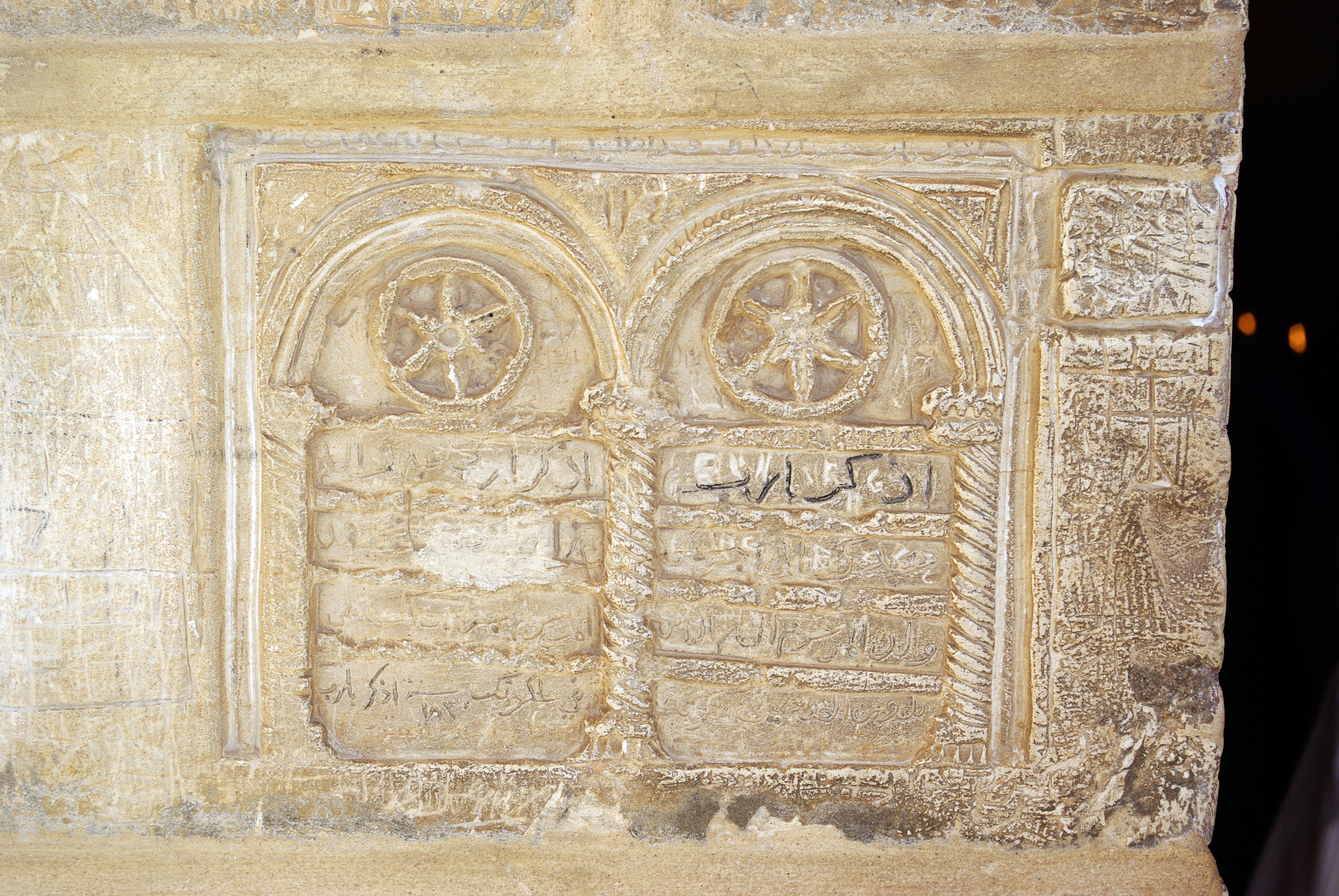 St. Gabriel's Greek Orthodox Church in Nazareth